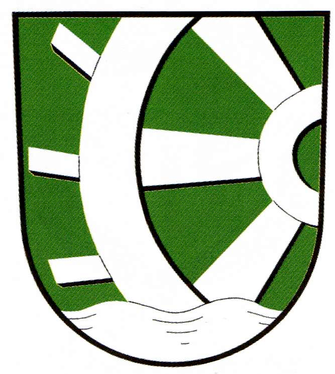 Coat of arms of Querenhorst